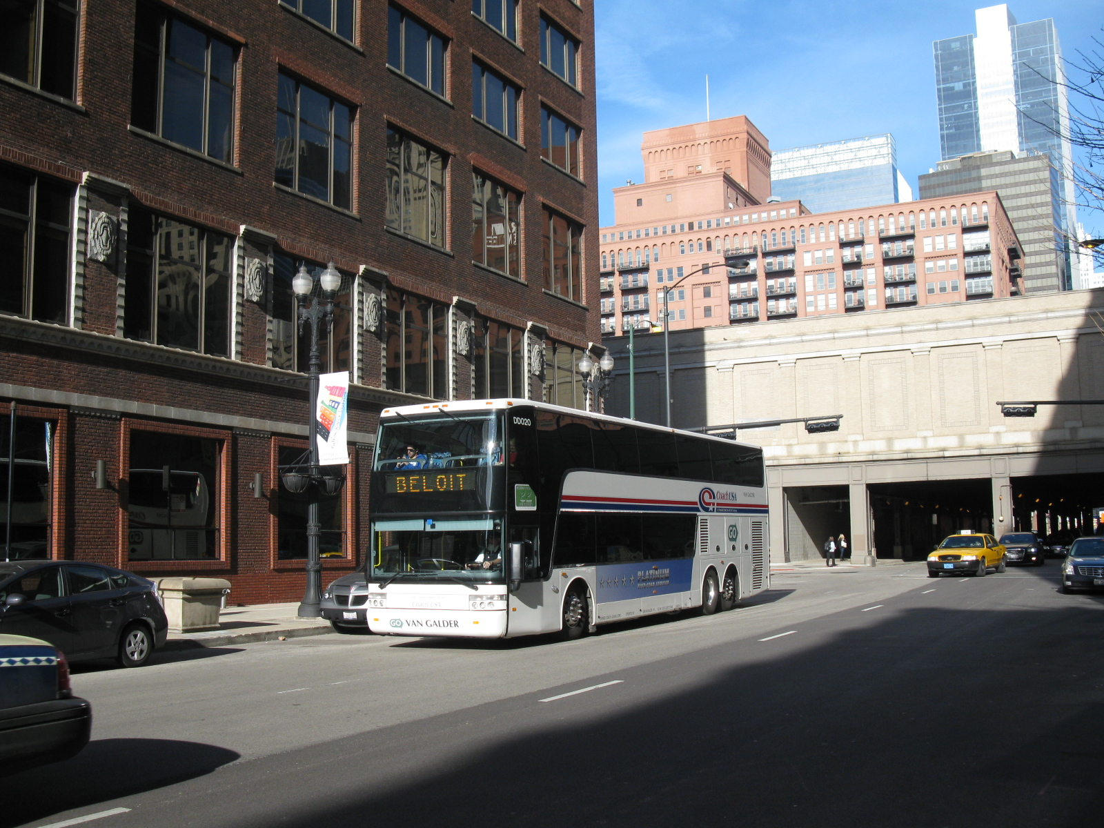 Photograph of a double-decker bus (Van Hool TD925) operated by Coach USA subsidiary Sam Van Galder, Inc.. From flickr: Van Galder operates buses between Chicago, Rockford, Beloit, Janesville, and Madison, Wisconsin.